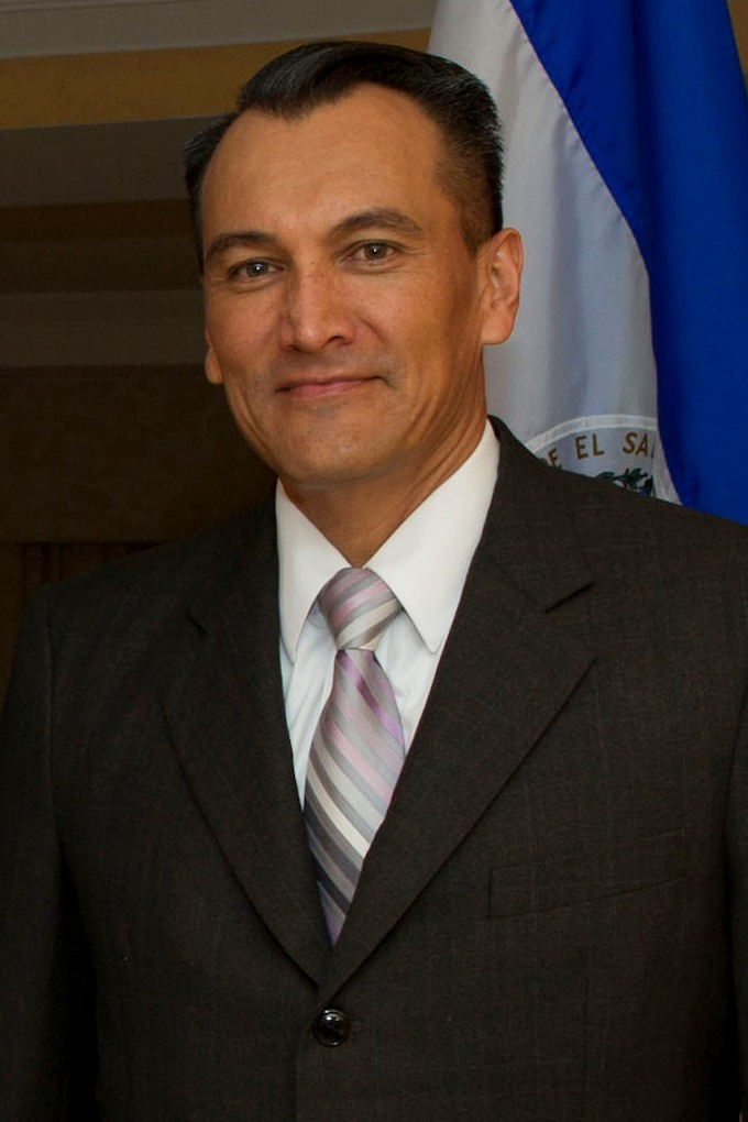 U.S. Secretary of Defense Leon E. Panetta, left, poses for a photo with El Salvadorian Minister of Defense Jose Atilio Benitez Parada at a conference for Defense Ministers in Punta del Este, Uruguay, Oct. 7, 2012. Panetta was in Uruguay as part of a South America visit to strengthen defense partnerships with countries in the region. (DoD photo by Erin A. Kirk-Cuomo/Released).